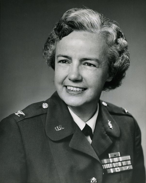 Elizabeth P. Hoisington, Director of the Women's Army Corps and one of the first two women Generals in the U.S. Army